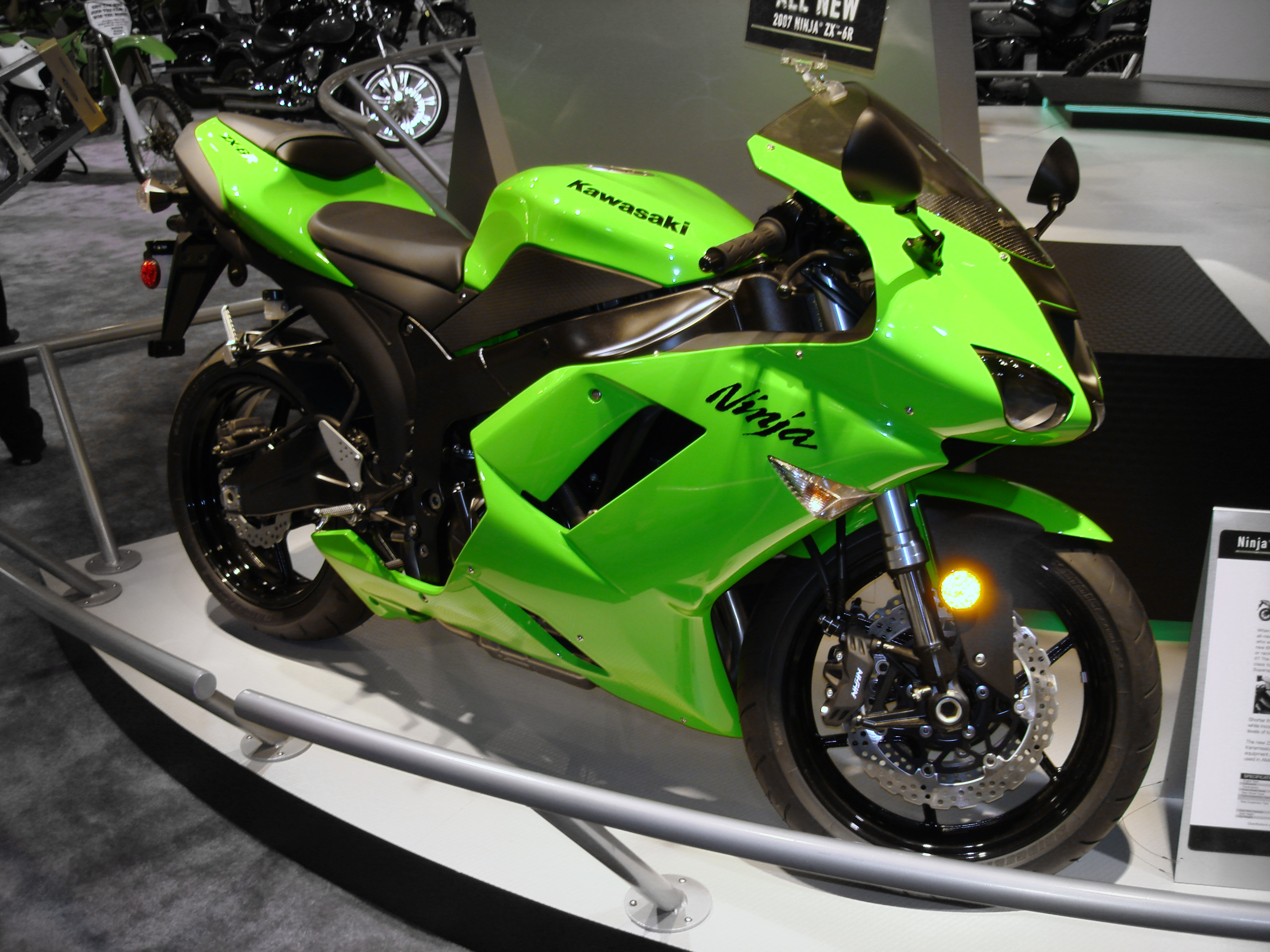 2007 Kawasaki Ninja ZX-6R on display at the 2006 International Motorcycle Show in Long Beach, CA. Camera used was a Sony Cyber-shot DSC-W100.